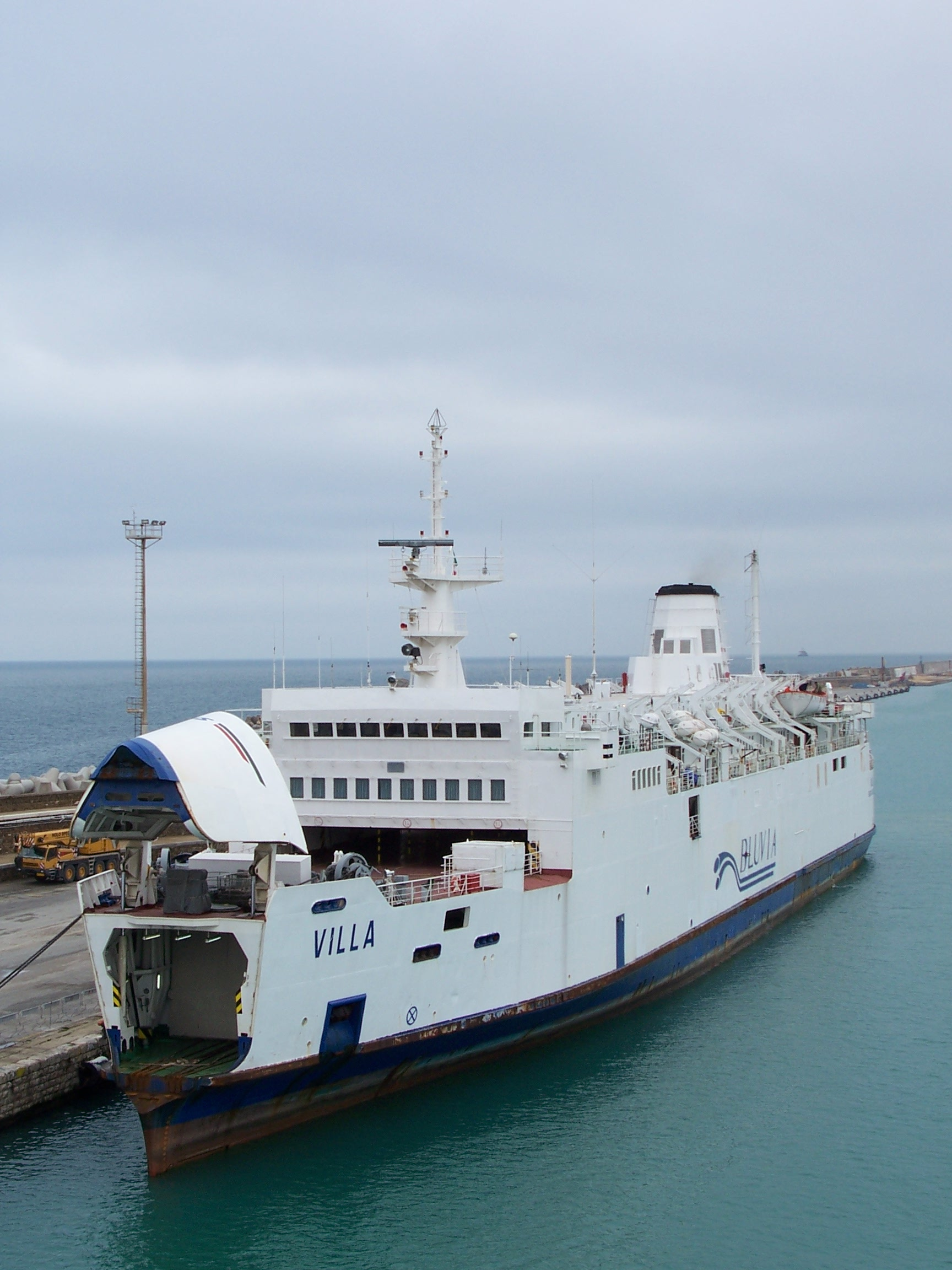 Train ferry Villa to Civitavecchia harbour